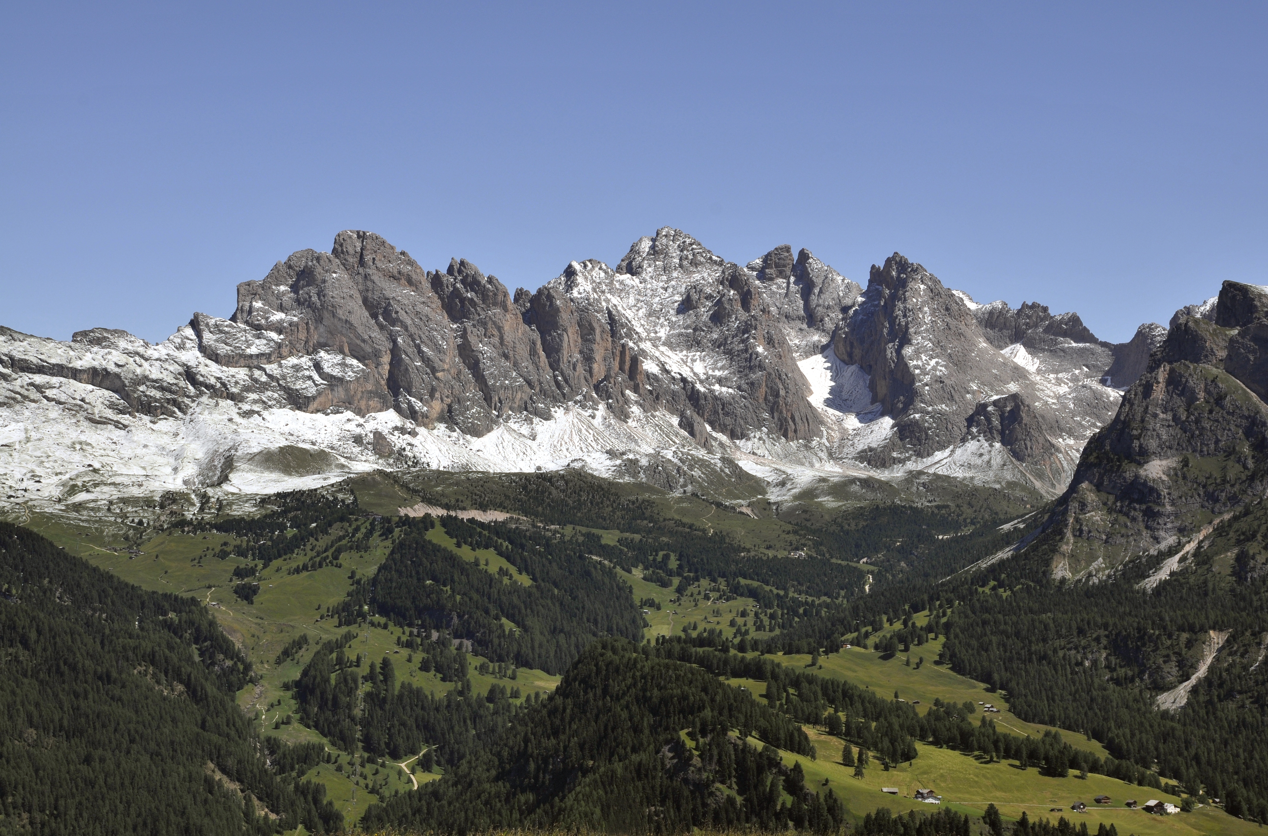 The Geisler group, lad. Odles - from left: Peles, Fermedes, Sass Rigais, Furchetta and Sass dla Porta in the Dolomites